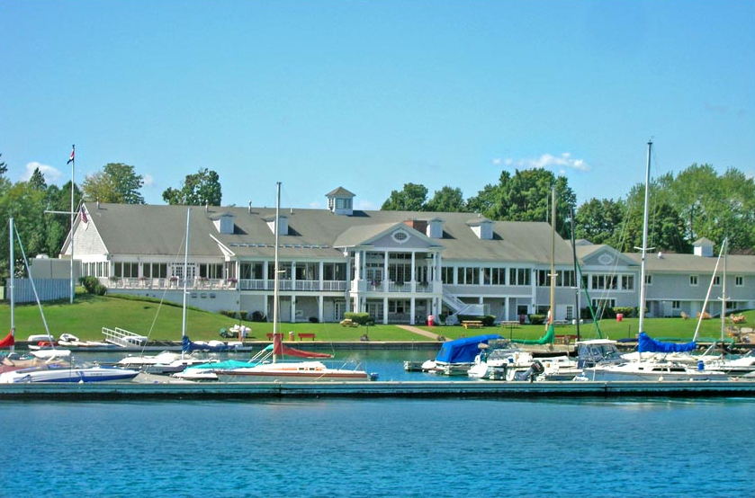 Paul Malo photograph.